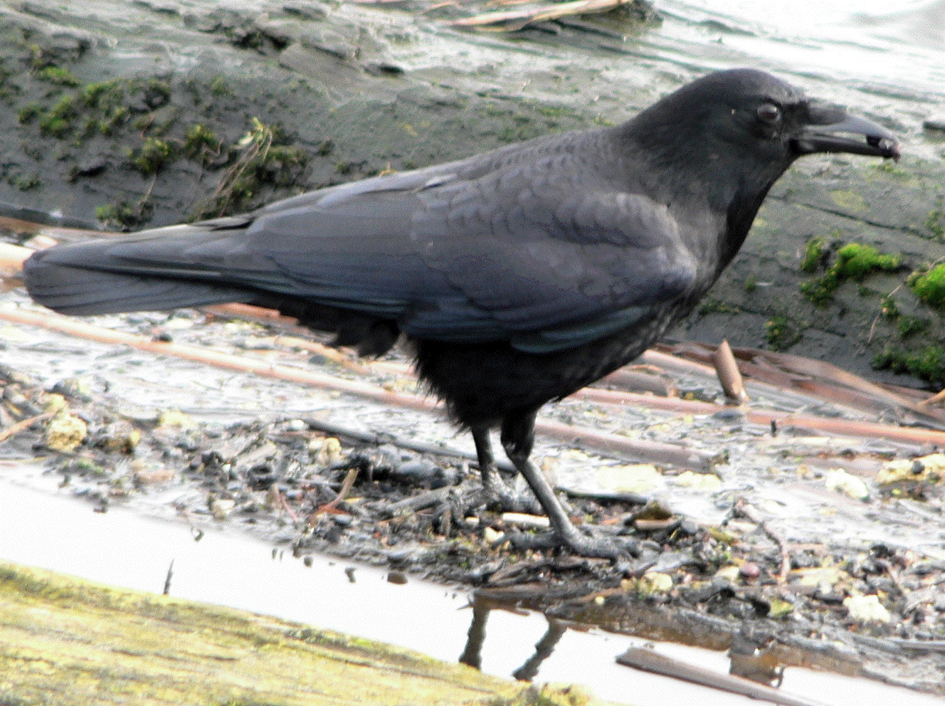 American or Northwestern Crow on the shore of Union Bay (Seattle)